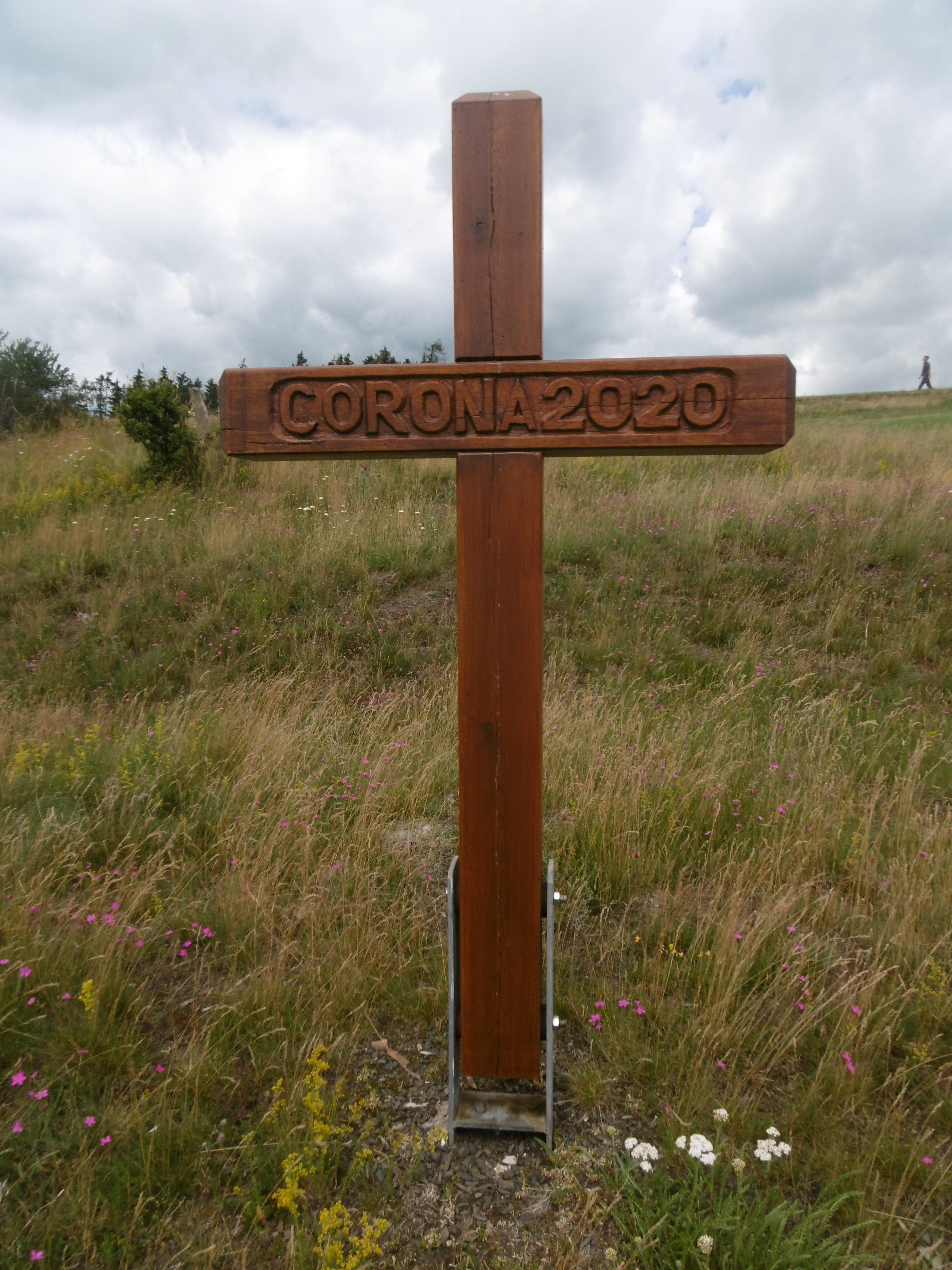 The "Corona 2020" cross erected in June 2020 in the Gelängeberg nature reserve in Medebach (Hochsauerlandkreis, NRW, Germany).